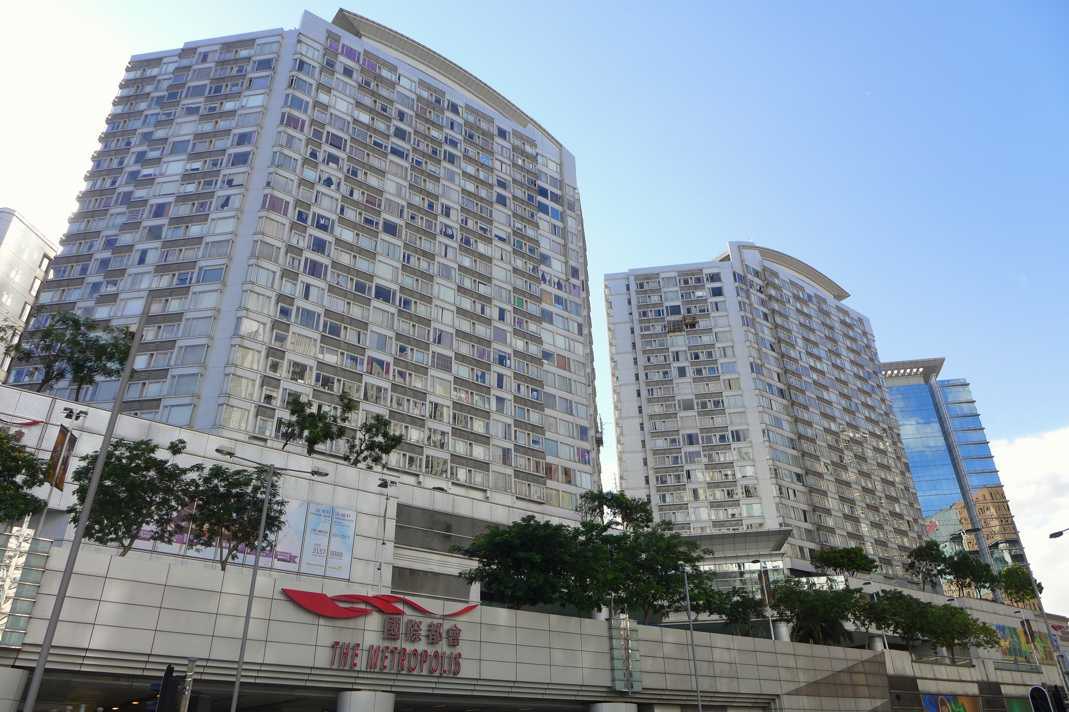 The Metropolis Residence